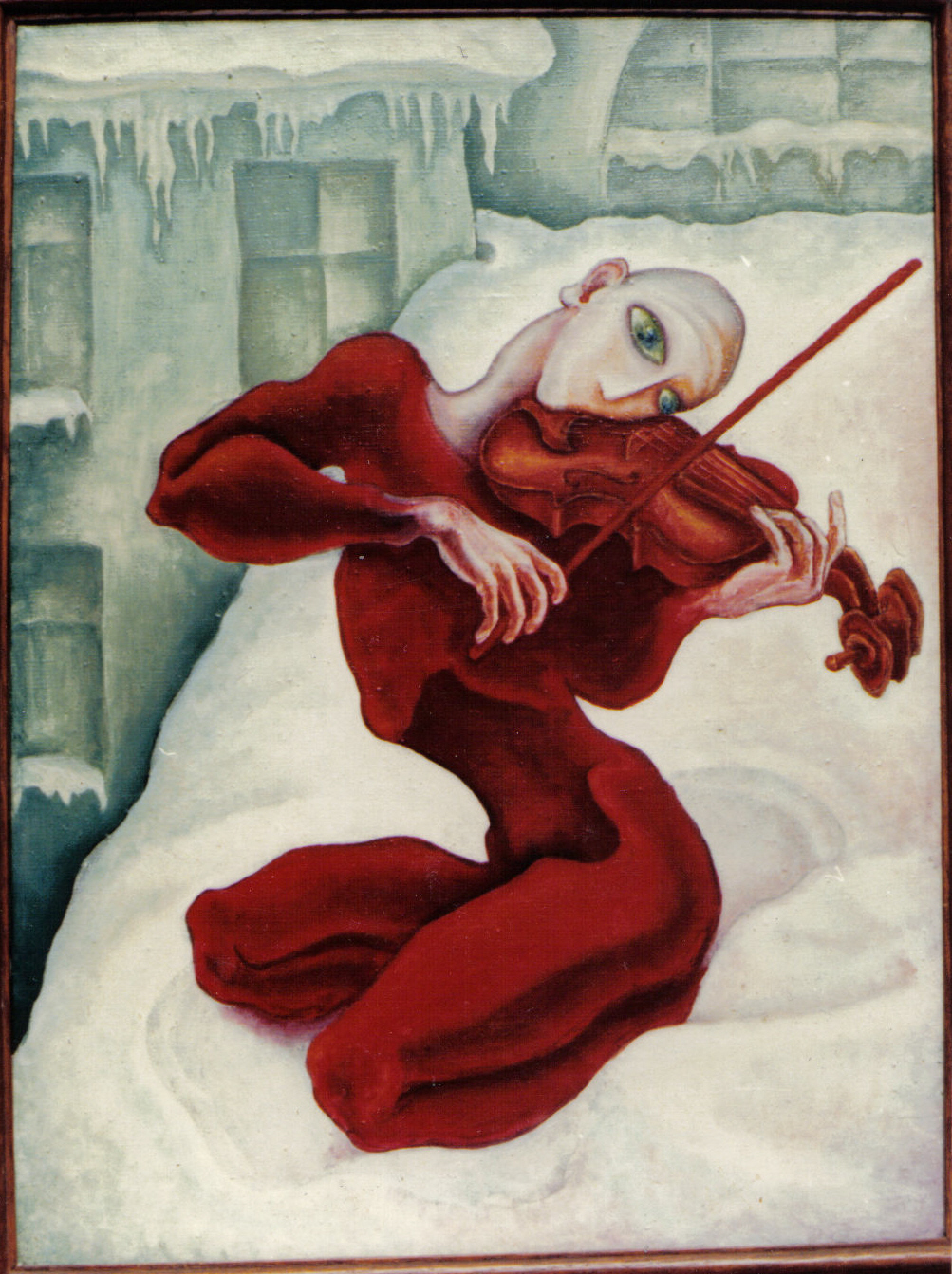 Tatyana Apraksina. Red Fiddler. 1995. Oil on canvas.